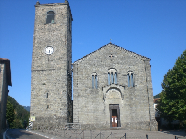 Pieve of Santa Maria Assunta, in Popiglio (Piteglio, Pistoia, Tuscany).